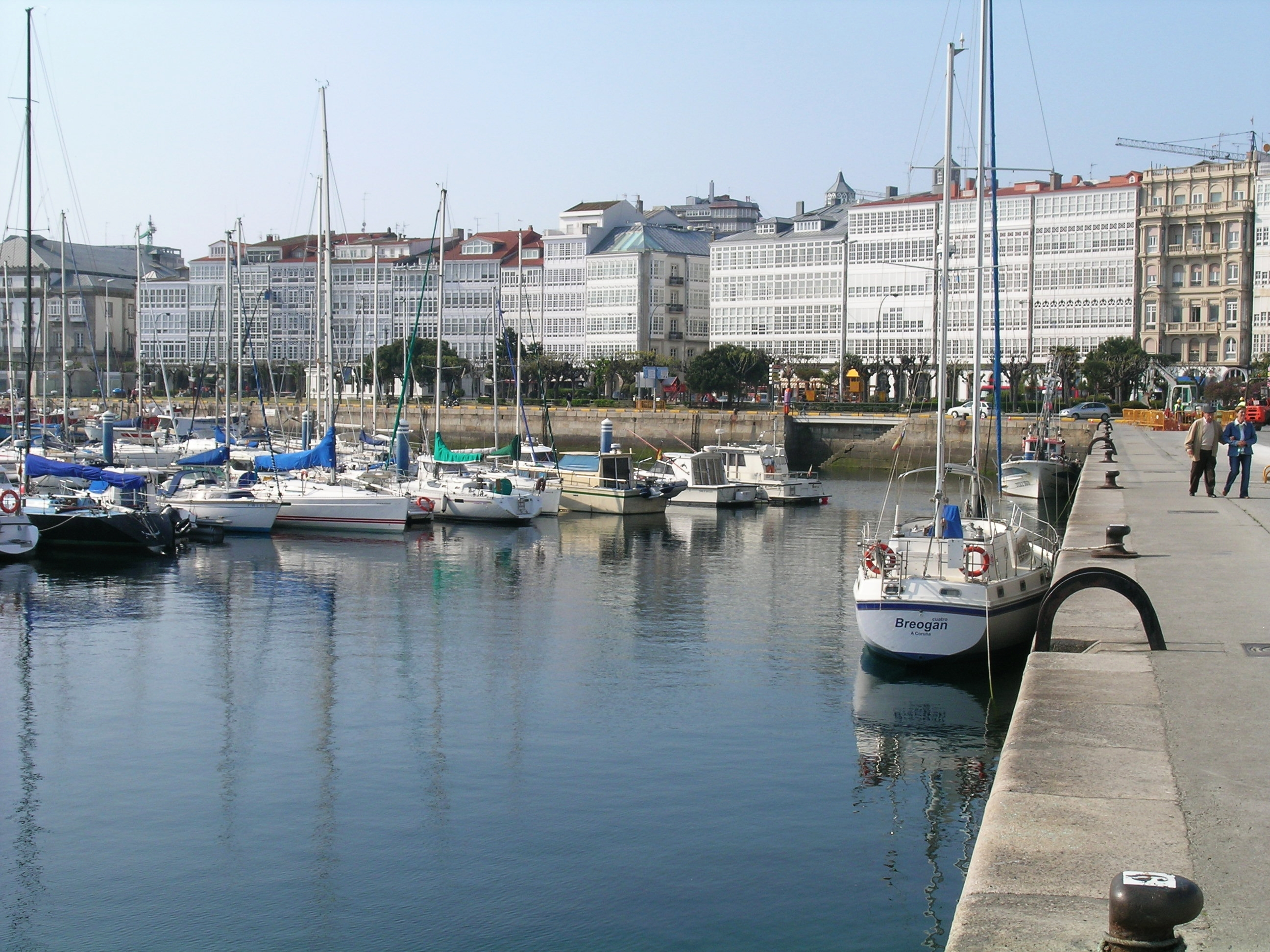 sport port of La Coruña (Galicia, Spain). The buildings in the background have wide windows, thus reflecting light and giving an impression of a bright city when coming from the sea